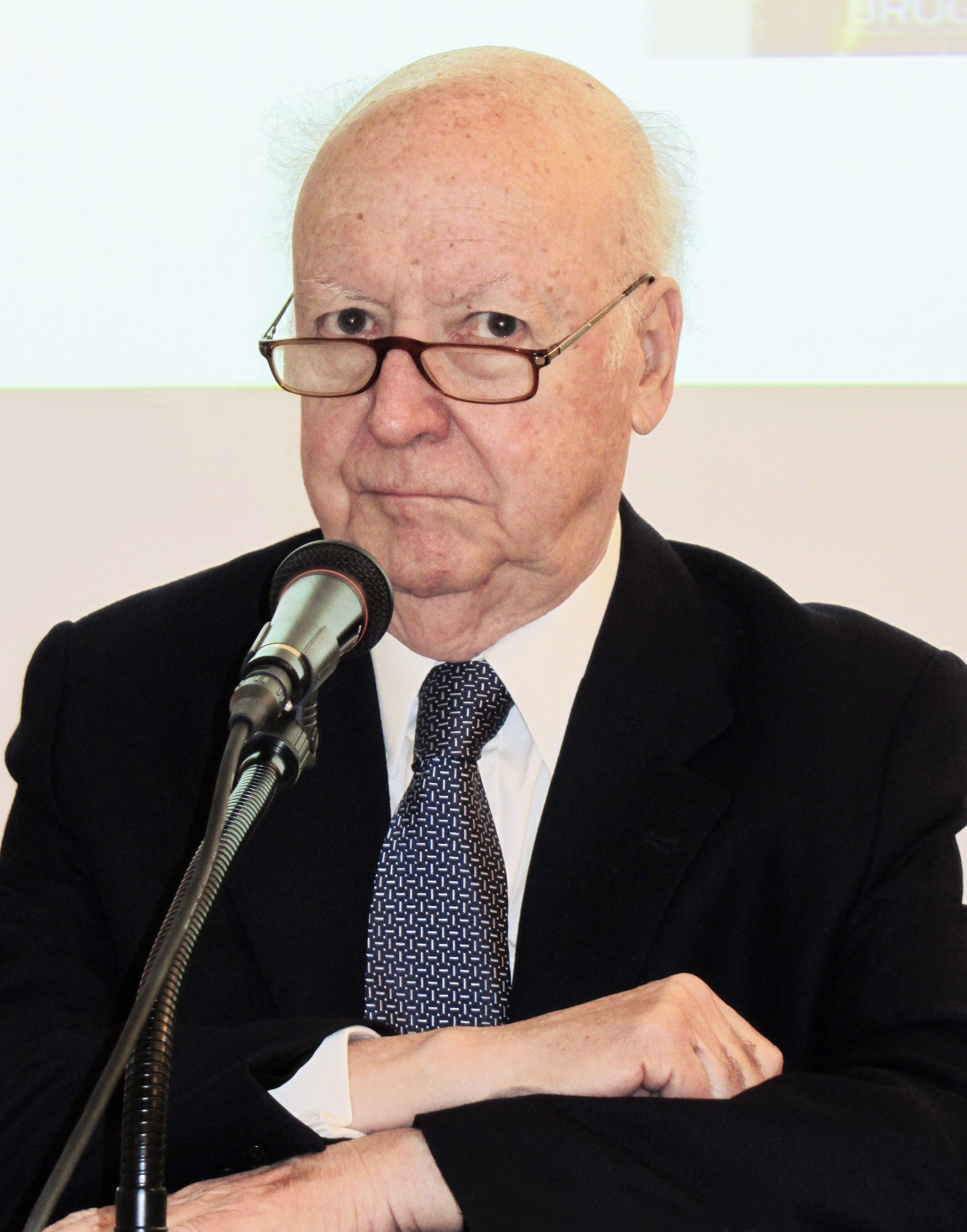 Chilean novelist Jorge Edwards at the Moscow Cervantes Institute; October 11, 2012